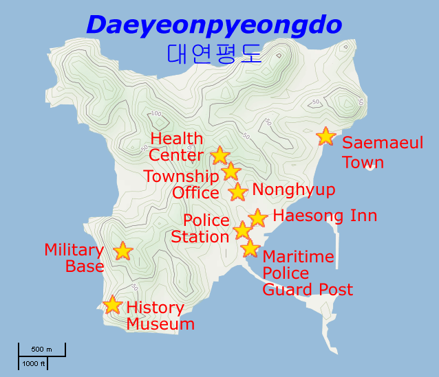 Map of the localities hit by the Yeonpyeong shelling of 23 November 2010